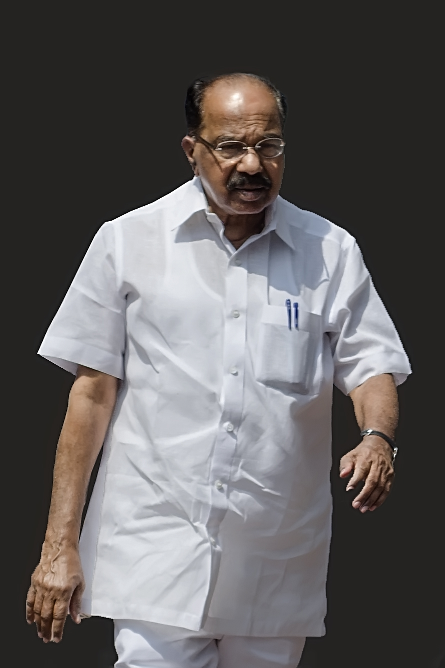 Veerappa Moily